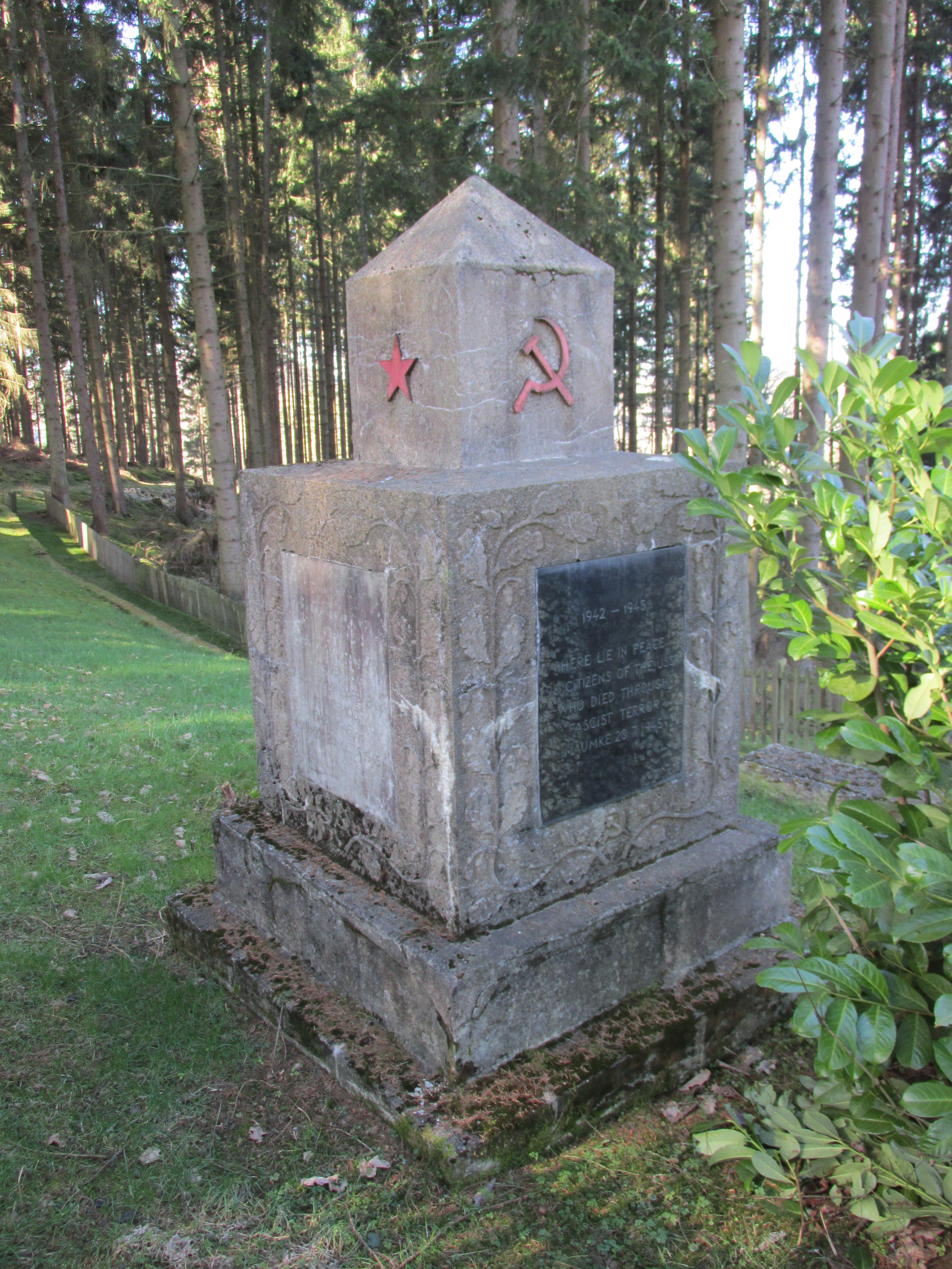 Soviet cemetery, Maumke, Lennestadt, Germany check usage